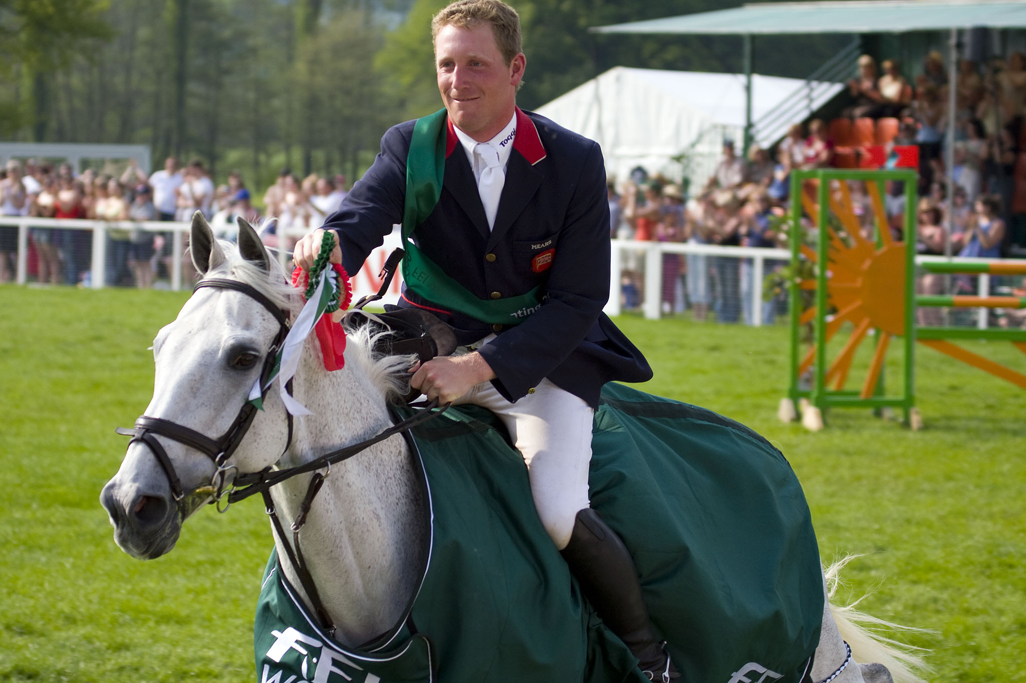 Chatsworth International Horse Trials 2008 The Overall FIE World Cup Winner